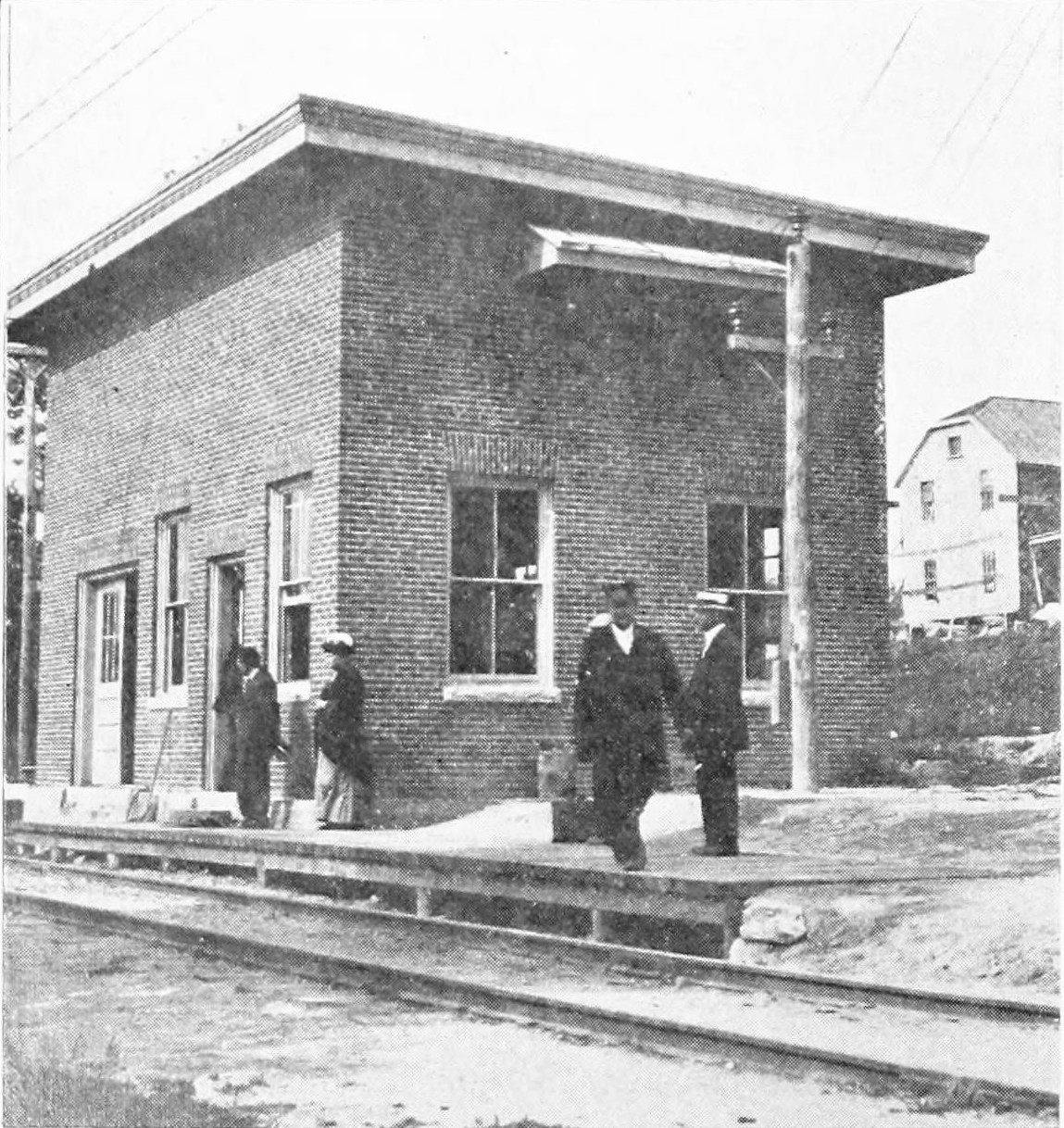 Combined substation and passenger station of the Portland–Lewiston Interurban at Gray, Maine in 1915